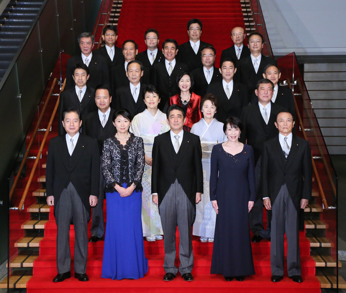 Shinzō Abe, Prime Minister, reformed the Cabinet on September 3, 2014. Abe posed for the photo with Sanae Yamamoto, Midori Baba, Fumio Kishida, Tarō Asō, Hakubun Shimomura, Yasuhisa Shiozaki, Kōya Nishikawa, Yūko Obuchi, Akihiro Ōta, Yoshio Mochizuki, Akinori Eto, Yoshihide Suga, Wataru Takeshita, Eriko Ogawa, Shun'ichi Yamaguchi, Haruko Arimura, Akira Amari, Shigeru Ishiba, Ministers of State, Katsunobu Katō, Hiroshige Sekō, Kazuhiro Sugita, Deputy Chief Cabinet Secretaries, and Yūsuke Yokobatake, Director-General of the Cabinet Legislation Bureau, at the Prime Minister's Official Residence in Chiyoda Ward, Tōkyō Metropolis.